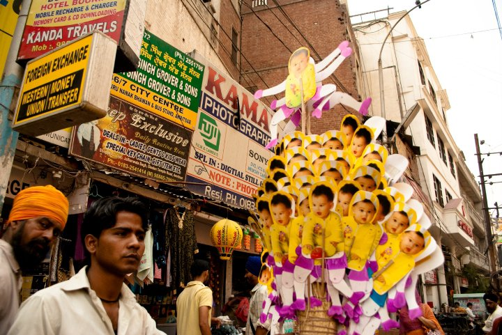 This is an image of a street in Amritsar, India.